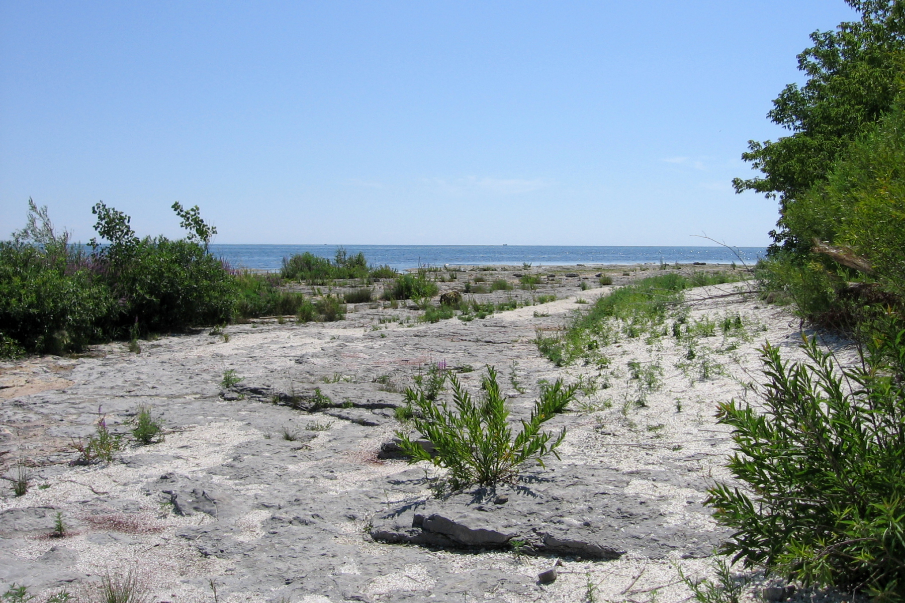 The flat rocks along the shore here were littered with fossils. At Rock Point Provincial Park.